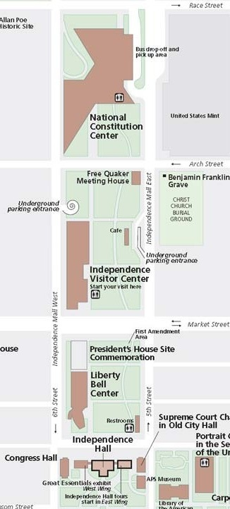 Detail of Map of Independence National Historical Park.